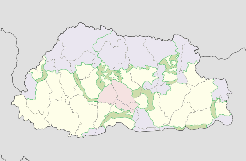 Jigme Singye protected area location map